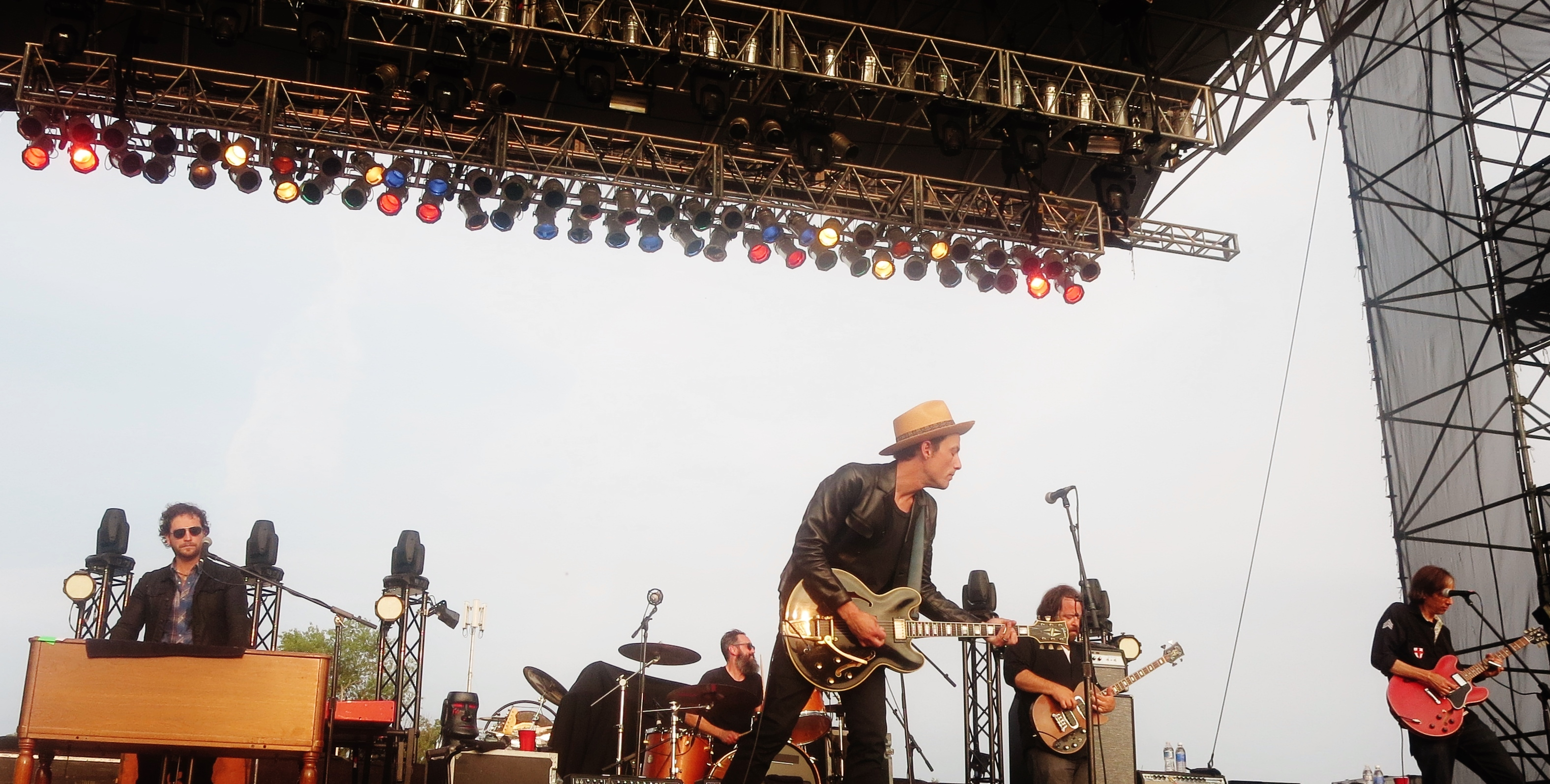 The Wallflowers perform in Walker, Minnesota on July 19th, 2014.